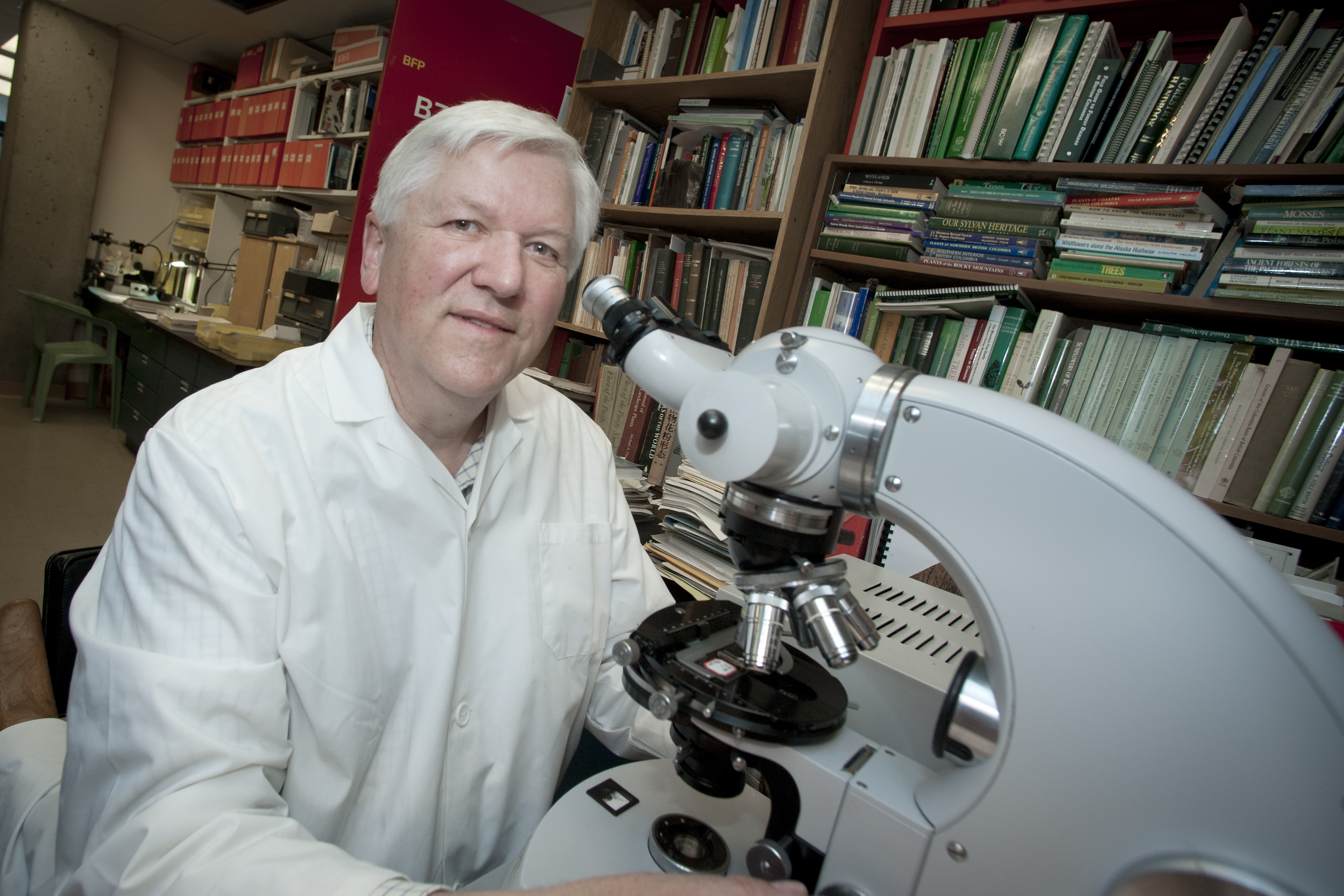 Rolf Mathewes investigating Forensics